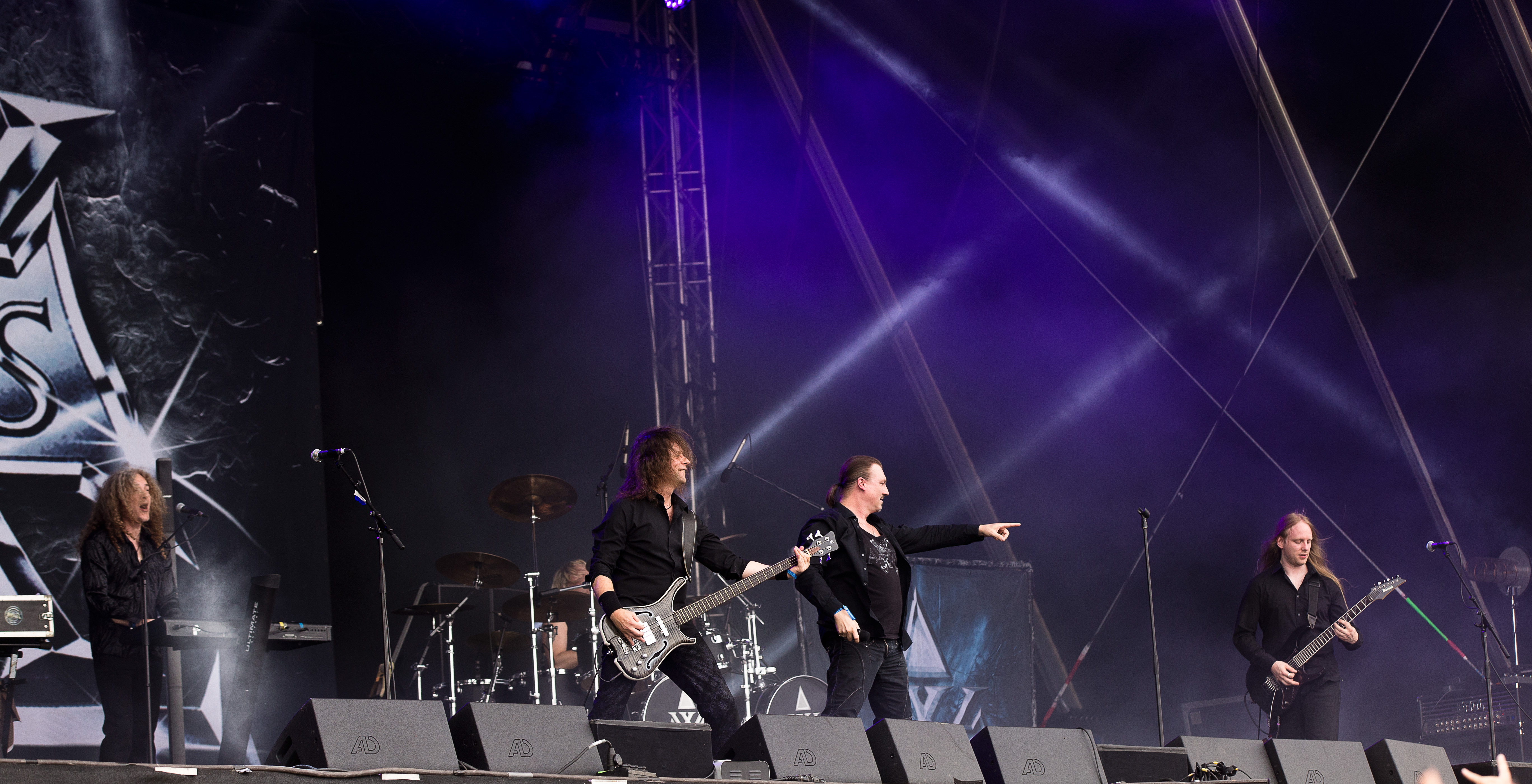 The German hard rock band Axxis at the Rockharz Open Air 2016 in Ballenstedt/Germany.